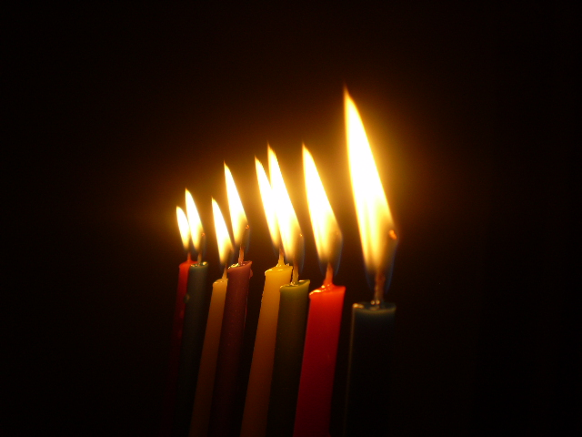 Hanukkah Candles In The Dark